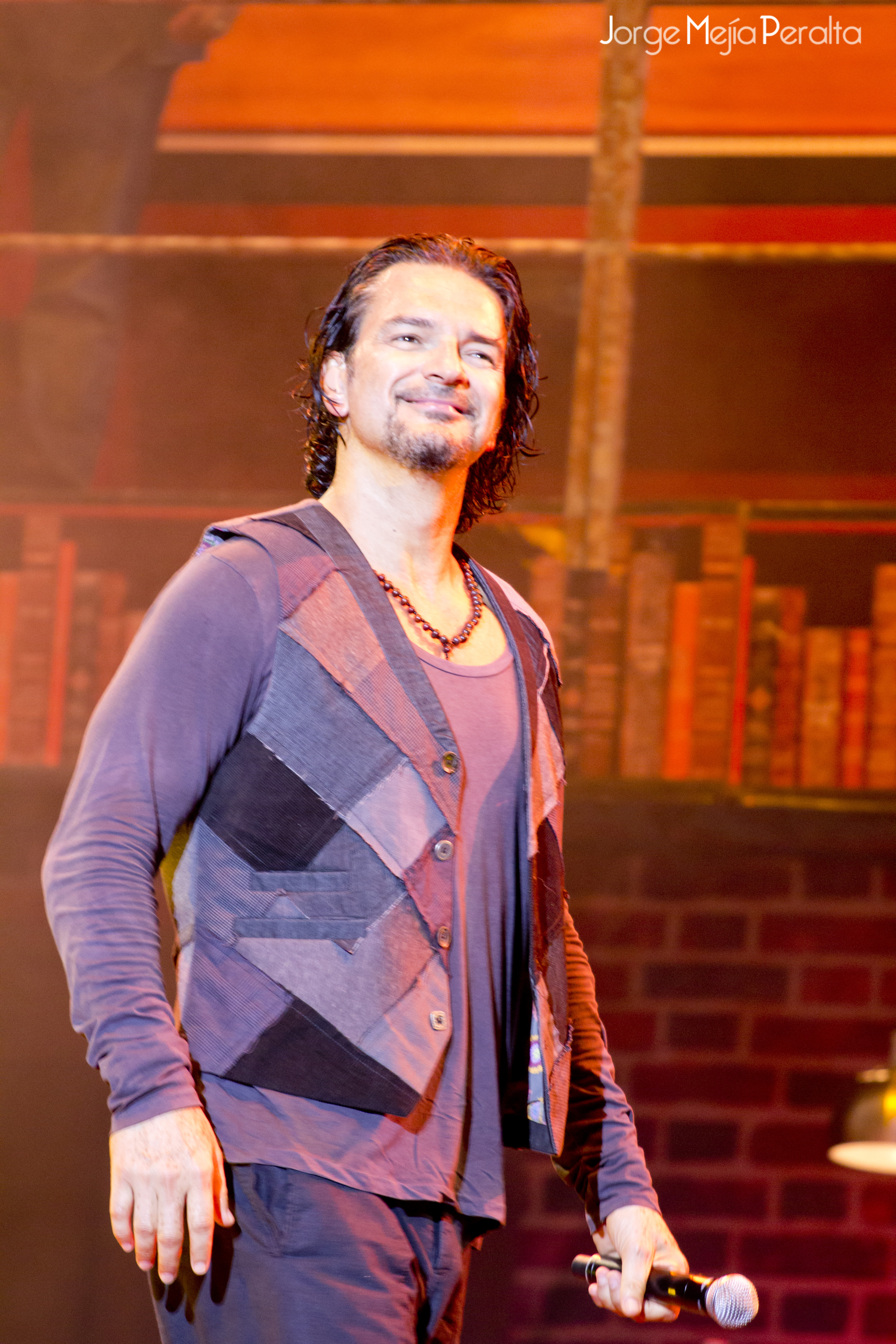 Ricardo Arjona at Managua, Nicaragua, during his Metamorfosis World Tour.